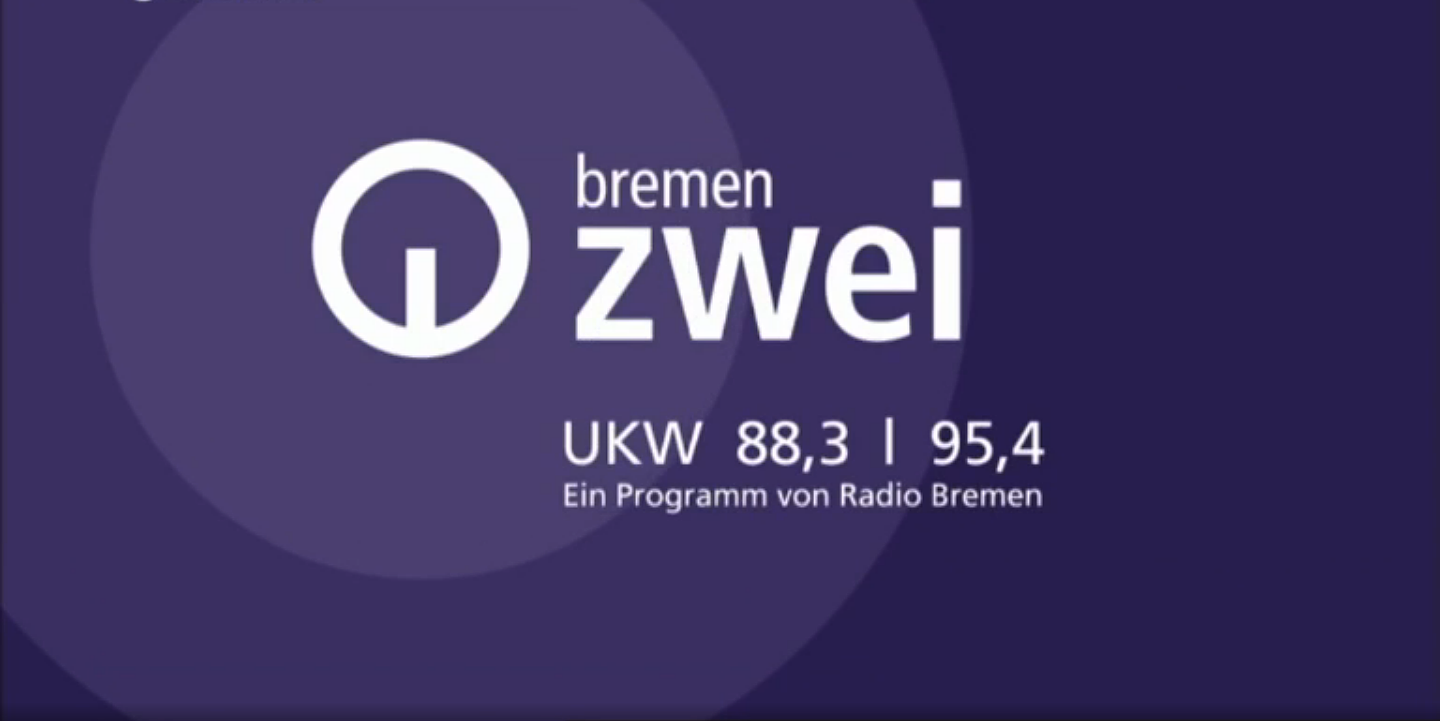 This is a teaser of the upcoming launch of the new bremen zwei (2017).